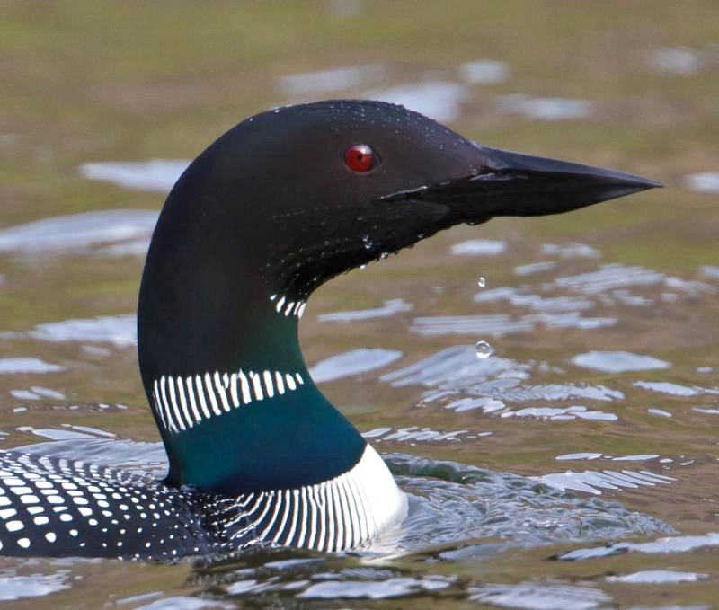 A Great Northern Loon (also known as the Great Northern Diver and the Common Loon) in Iceland.